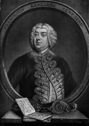 Italian castrato singer Francesco Bernardi, known as Senesino, Engraved by Alexander Van Haecken (1701-58) based on Hudson.